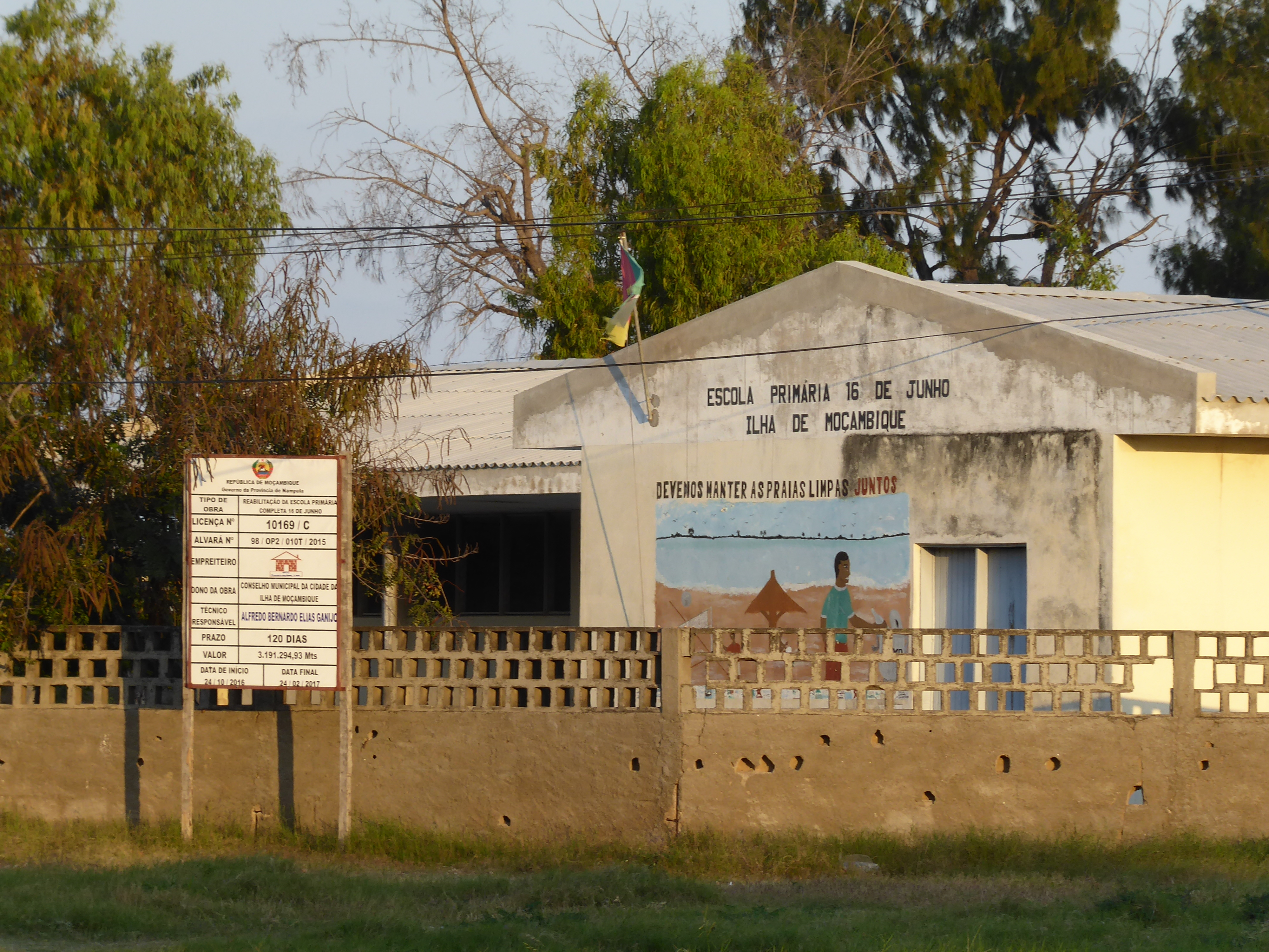 Primary School "June 16", Ilha de Moçambique, Mozambique